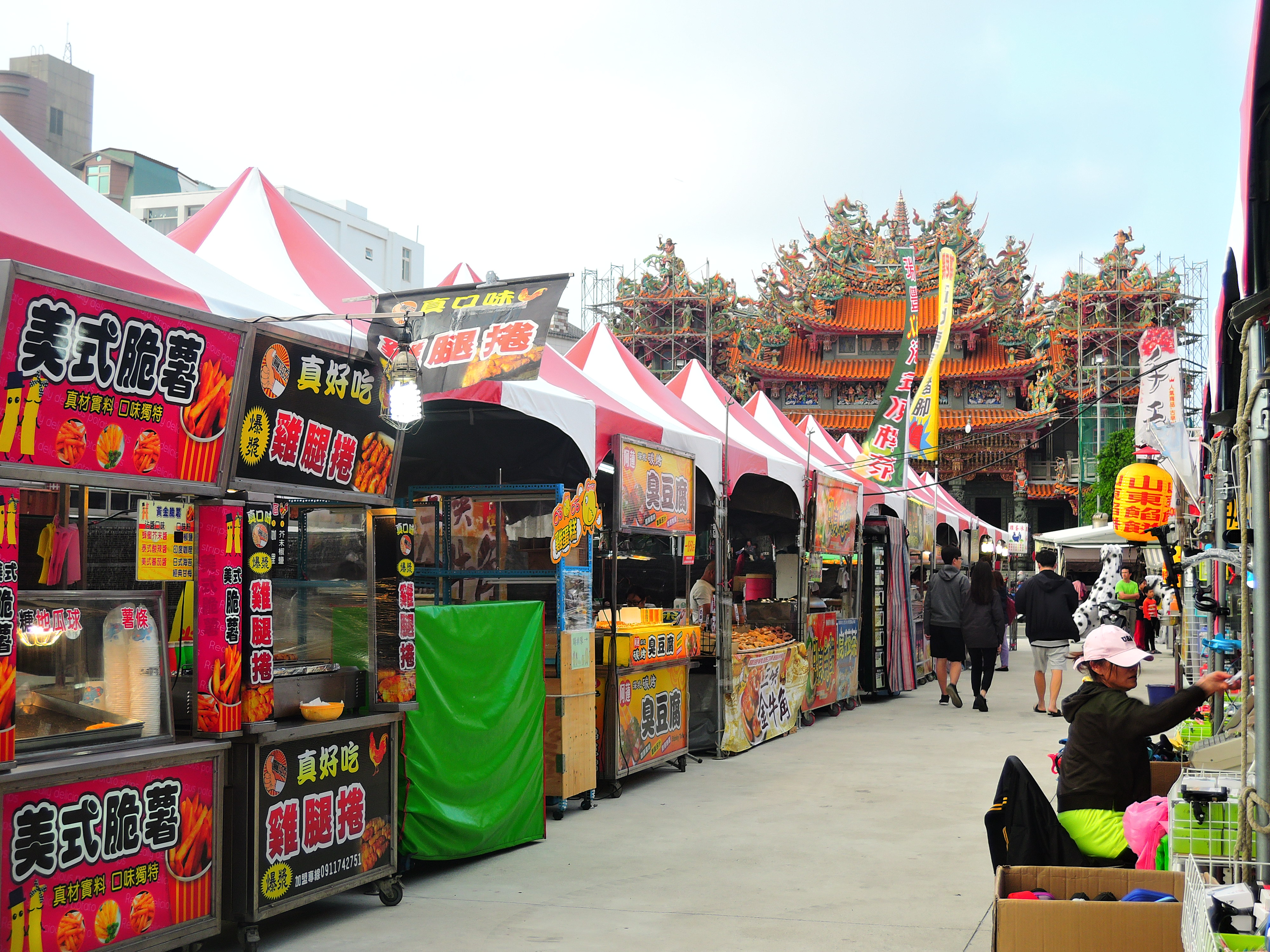 The Zushi Temple at Wen Ao, Penghu Taiwan